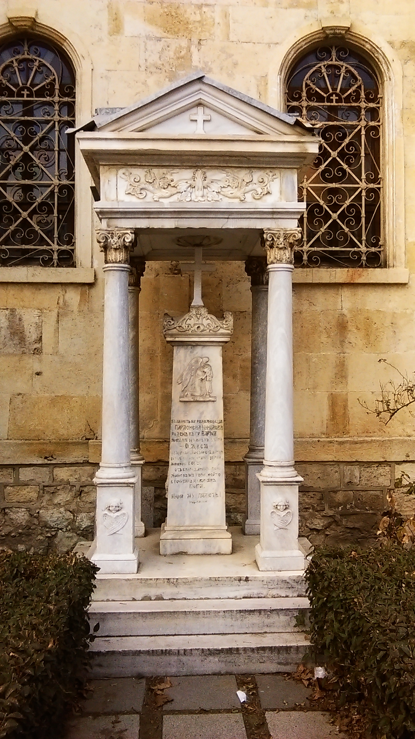 Monument to the donor of Sveti Nikolay orthodox church in Varna